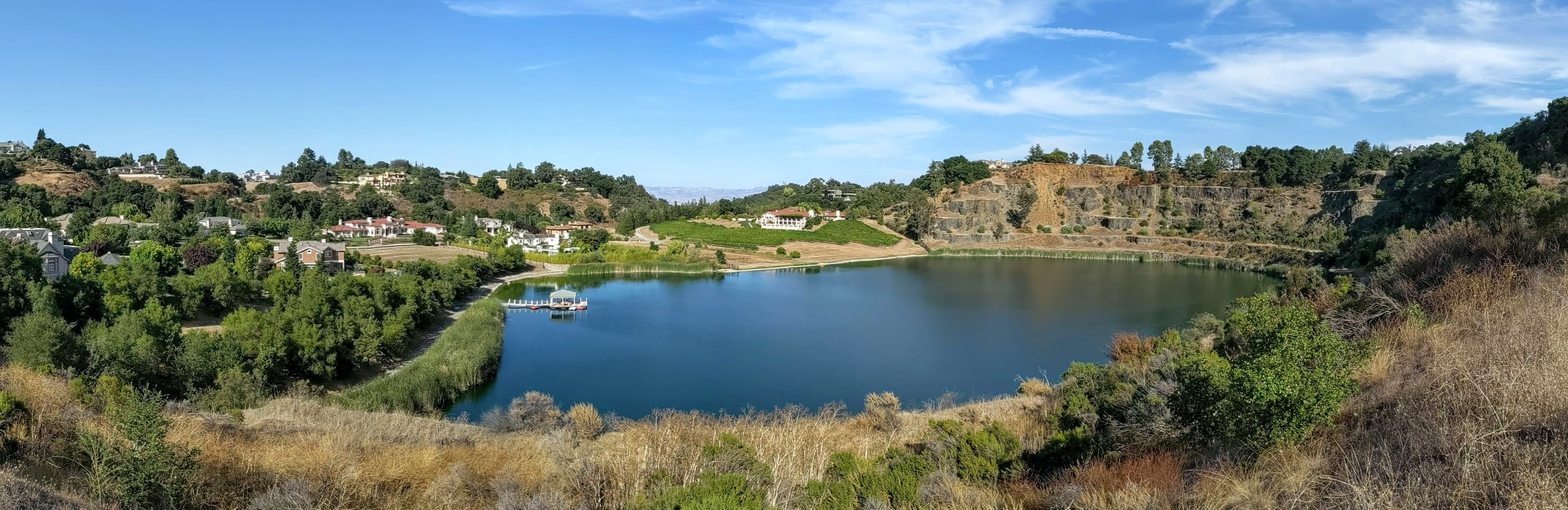 The Neary Quarry lake on Hale Creek, Los Altos Hills, California, viewed from the southwest rim, with many luxury homes around it. Hale Creek enters at the western tip (lower left) and exits on the eastern (far) side where the dam is, below the vineyard.